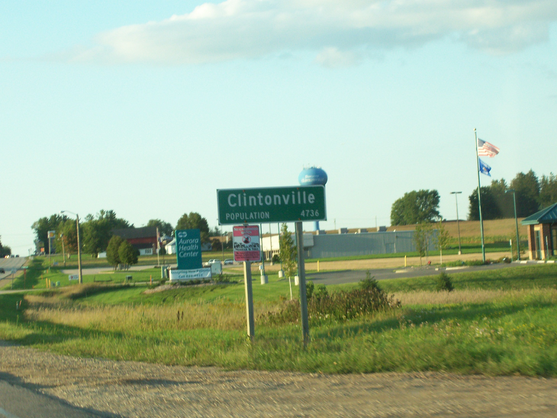 Looking north at the DOT sign for Clintonville, Wisconsin, USA on U.S. Route 45/Wisconsin Highway 22.